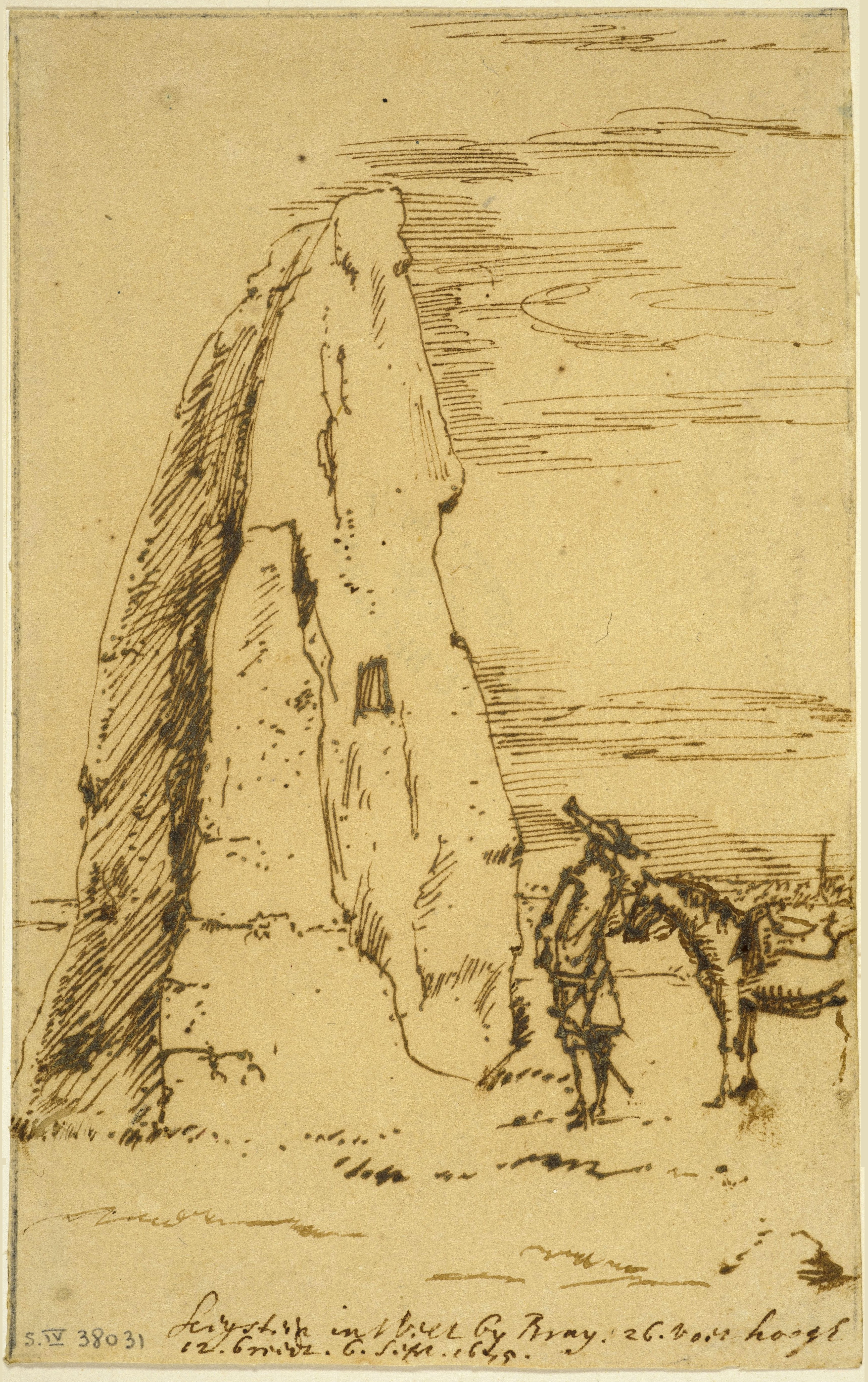 Drawing of the Bray stone made in 1675 by Constantin Huygens jr. (1628-1697).